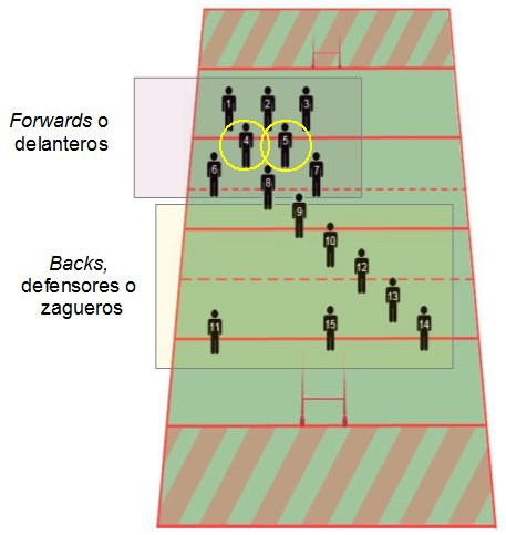 Rugby posiciones. Segundas linea.